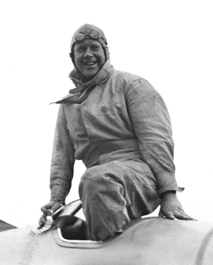 Captain Les Holden, Australian Flying Corps veteran, steps out of the cockpit of his DH.61 Canberra at Mascot after finding the Southern Cross in north-western Western Australia. Taken as news picture for both the Sydney Labour Daily and the Melbourne Argus and Australasian.